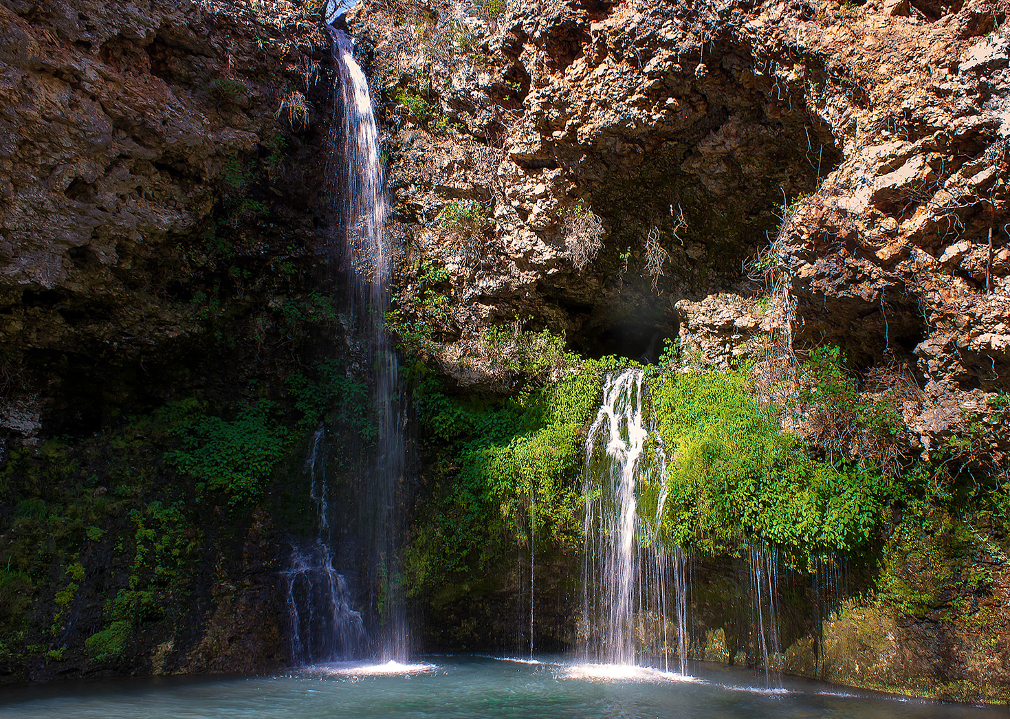 The Natural Falls at Natural Falls State Park in Eastern Oklahoma.